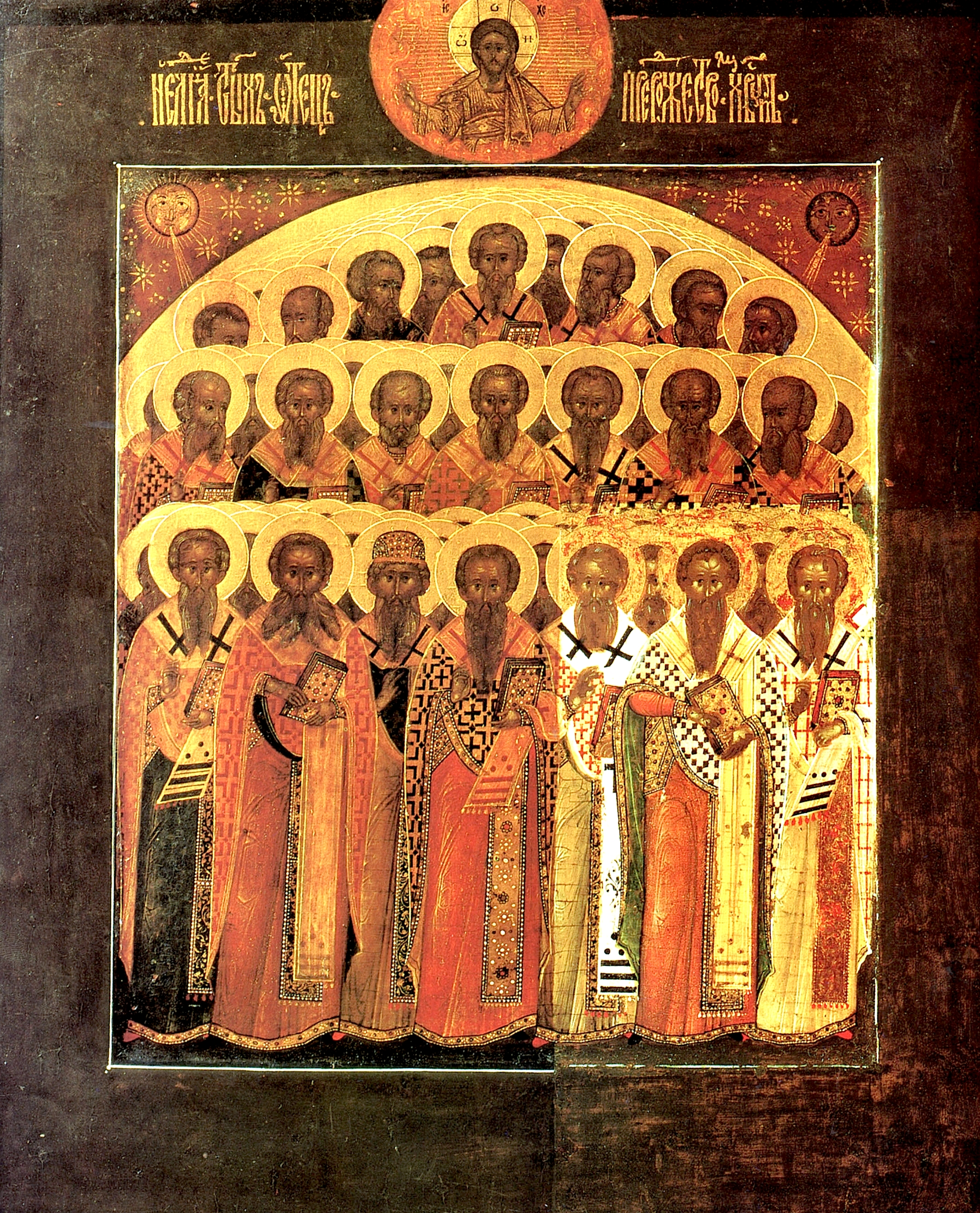 Russian icon of the Week (Sunday) of the Holy Fathers before Christmas. State Russian Museum, St. Petersburg.